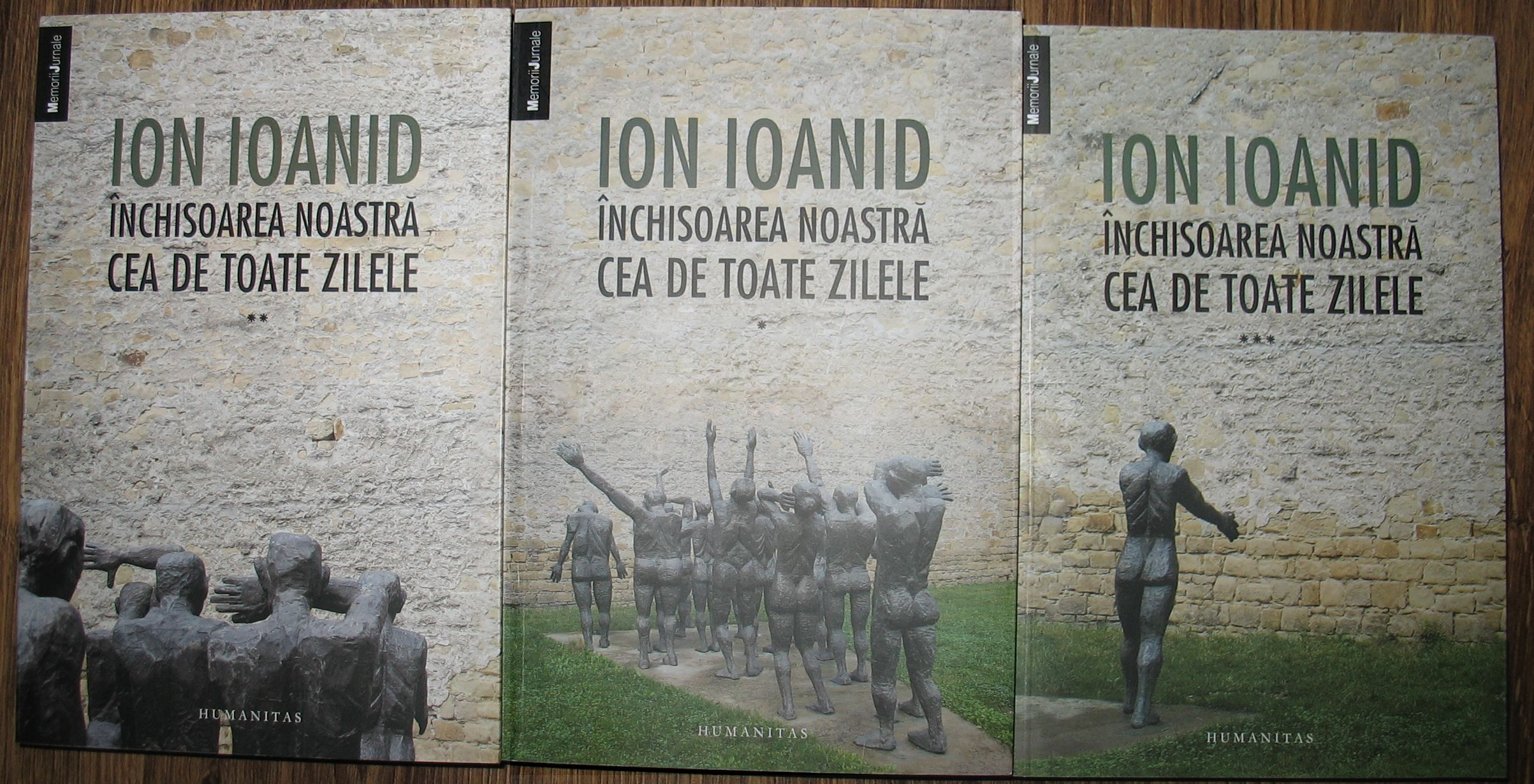 Give us each day our daily prison (Inchisoarea noastra cea de toate zilele), by Ion Ioanid - 3 volumes, 3rd edition (2013)